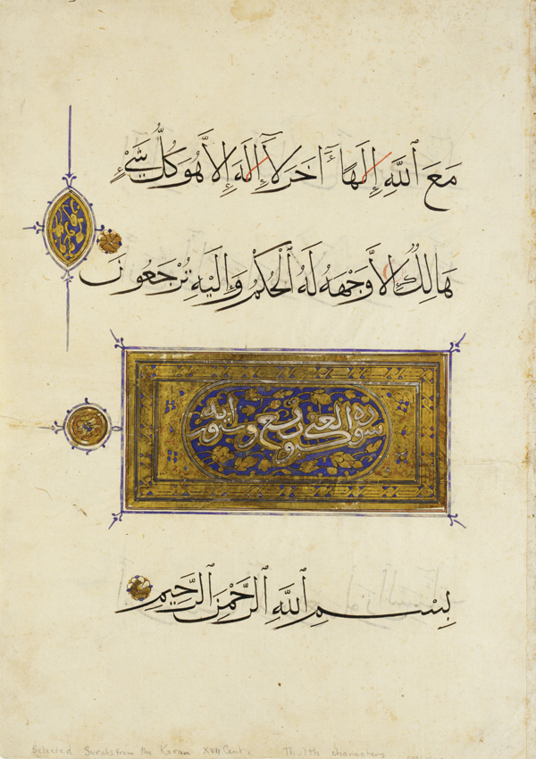 Bi-folio from a section of the Koran: Sura 28, verse 88; Sura 29, verse 1 Mamluk dynasty Ink, color, and gold on paper Egypt Transfer from the National Portrait Gallery, Smithsonian Institution, S1995.115a-d